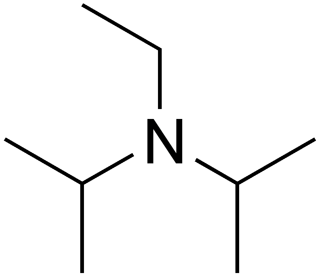 chemical structure of N,N-Diisopropylethylamine (Hunig's base)